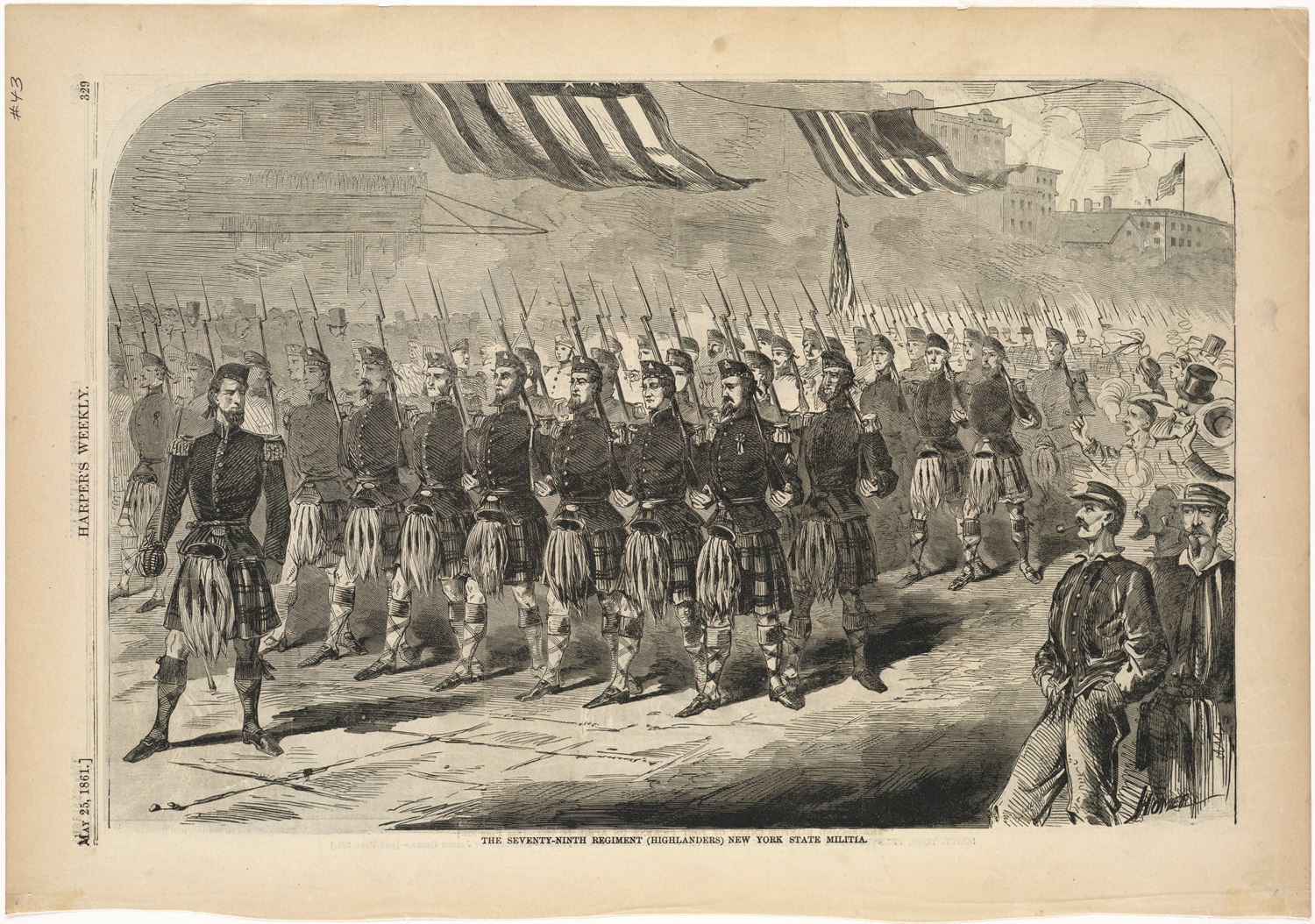 File name: 10_09_000043 Title: The Seventy-Ninth Regiment (Highlanders) New York State Militia Creator/Contributor: Homer, Winslow, 1836-1910 (artist) Date issued: 1861-05-25 Physical description: 1 print : wood engraving Genre: Wood engravings; Periodical illustrations Notes: Published in: Harper's Weekly, Volume V, 25 May 1861, p. 329.; Signed lower right: Homer. Collection: Winslow Homer Collection Location: Boston Public Library, Print Department Rights: No known restrictions Flickr data on 2011-08-11: Camera: Sinar AG Sinarback 54 FW, Sinar m Tags: Winslow Homer User: Boston Public Library BPL